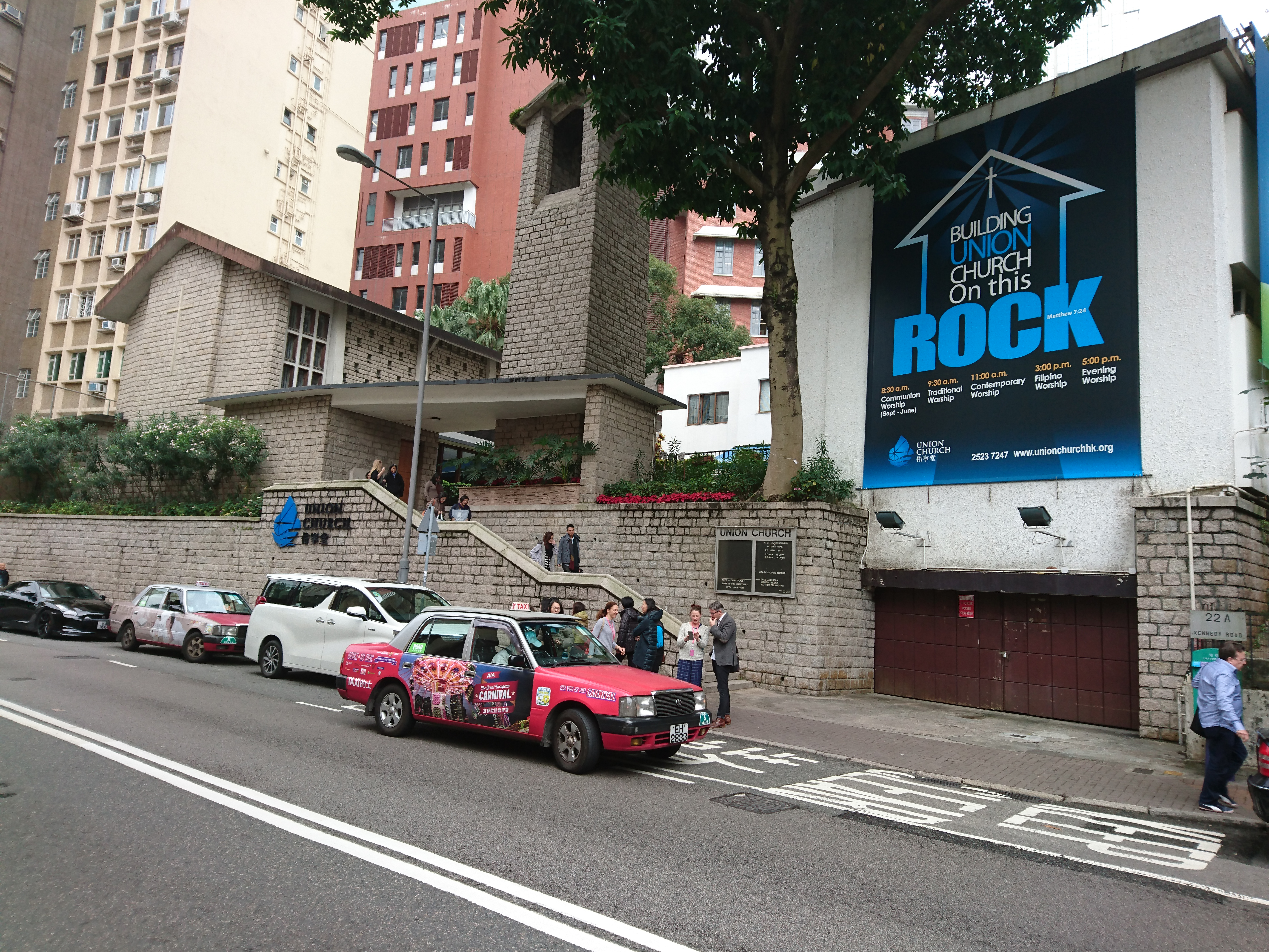 Union Church Hong Kong